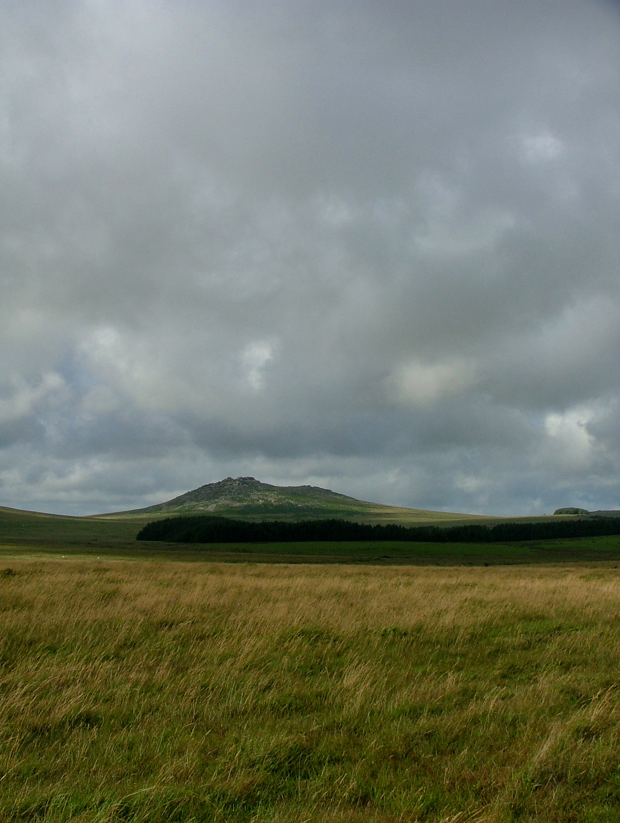 Brown Willy Tor, Bodmin Moor, Cornwall Uk.